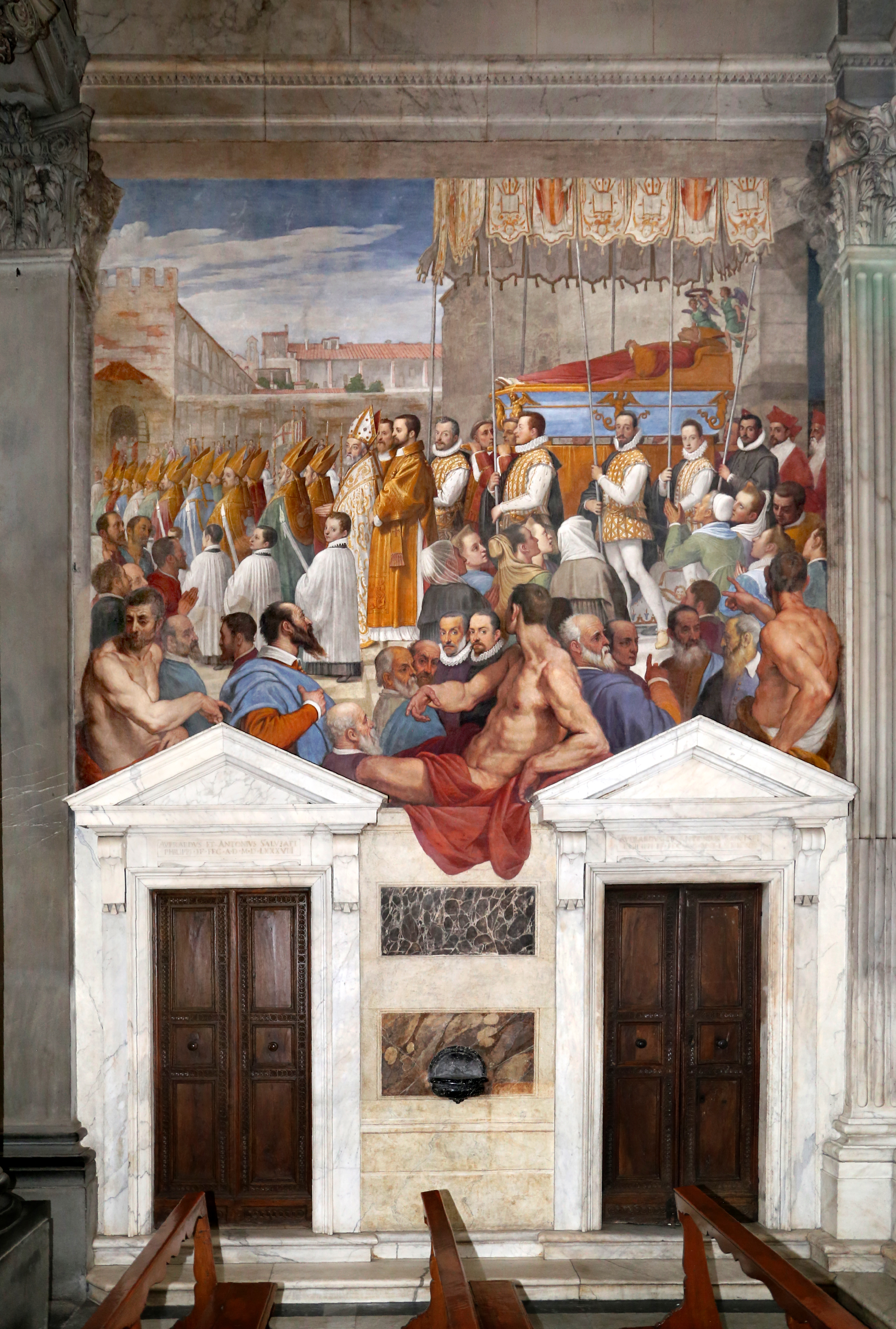 Funerals of Saint Anthoninus by Passignano